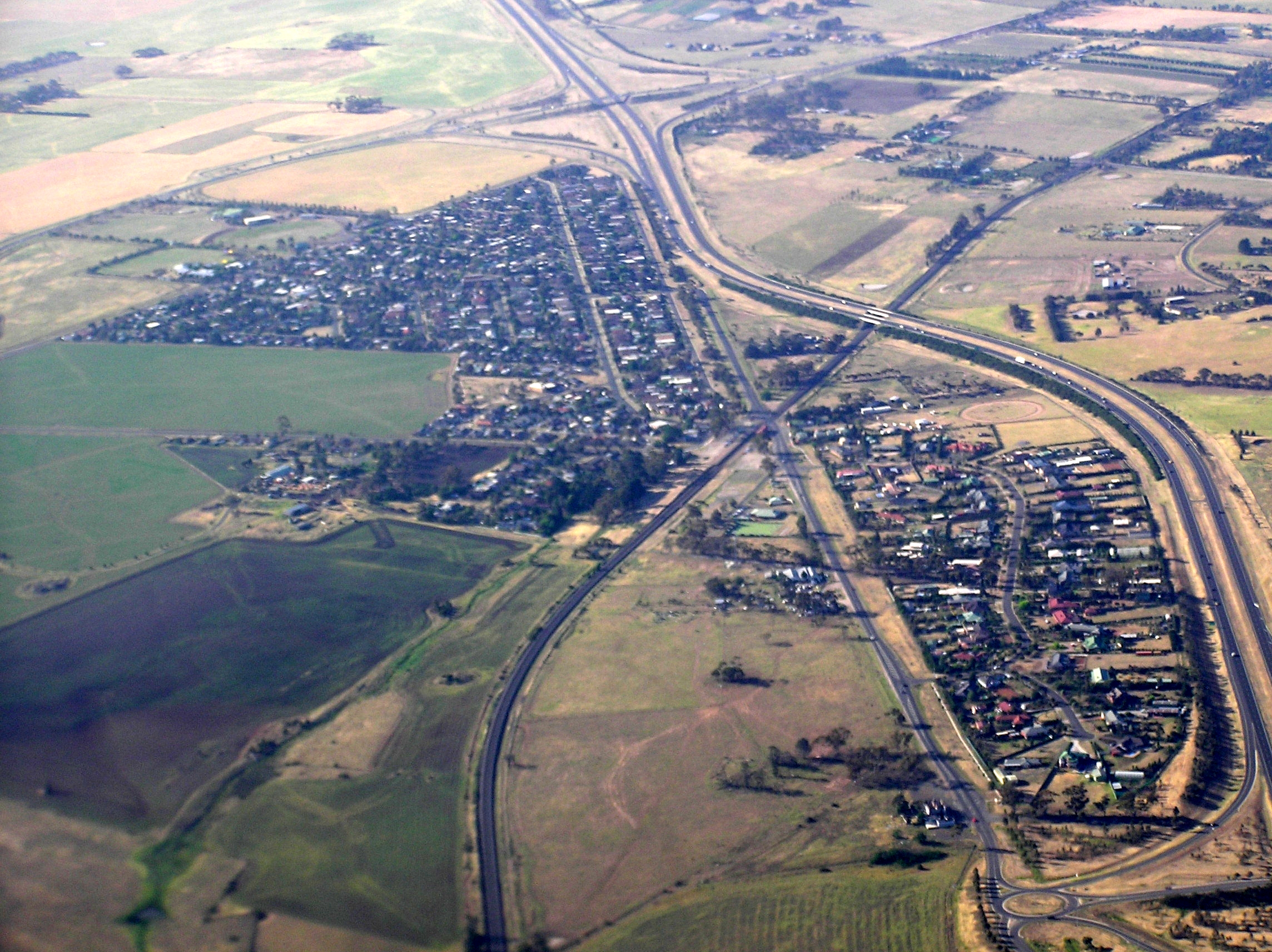 Diggers Rest Victoria viewed from south east